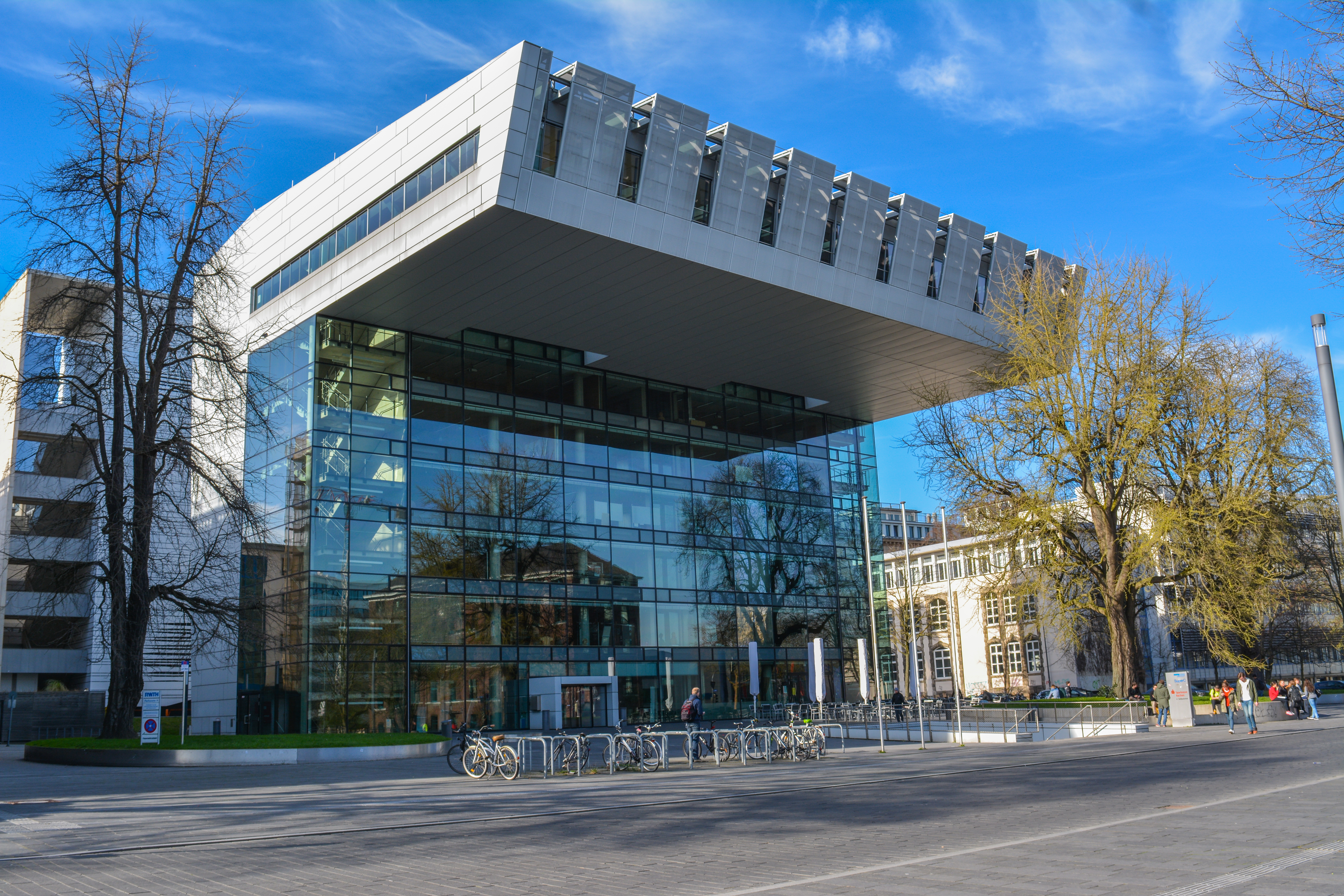 SuperC Building, RWTH Aachen University